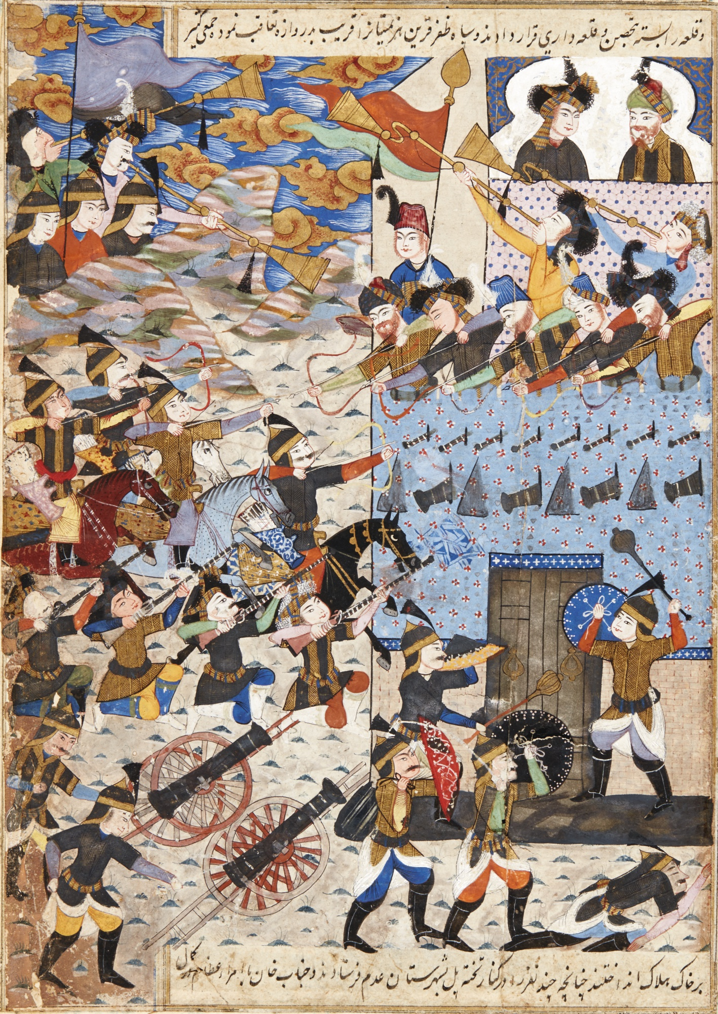 An illustrated and illuminated leaf from the Tarikh-i ‘alam-ara-yi Abbasi of Iskander Bayg Munshi the capture of Yerevan citadel, Persia, Isfahan, circa 1650, Sotheby's